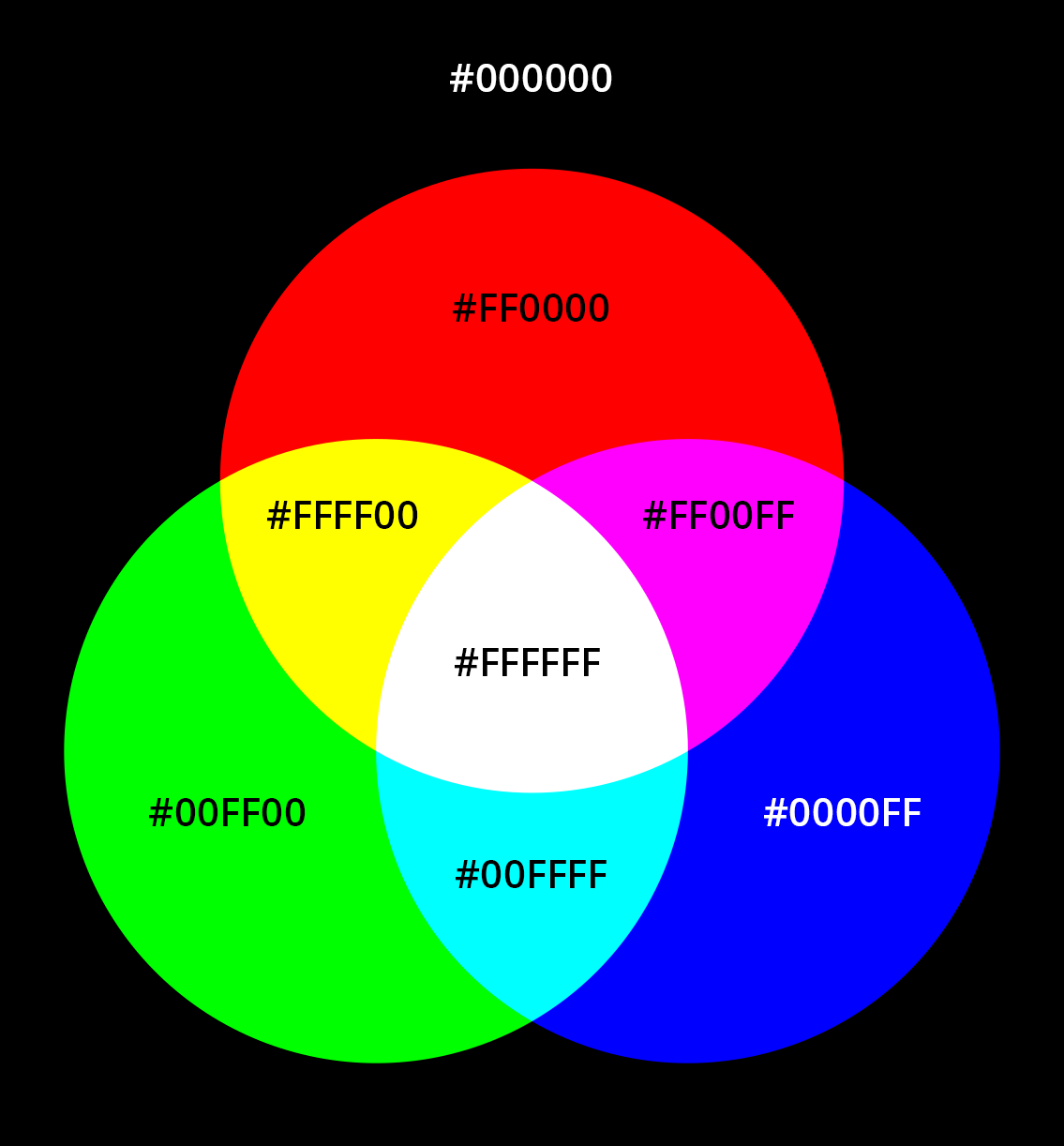 additive color system, hex codes of eight web colors